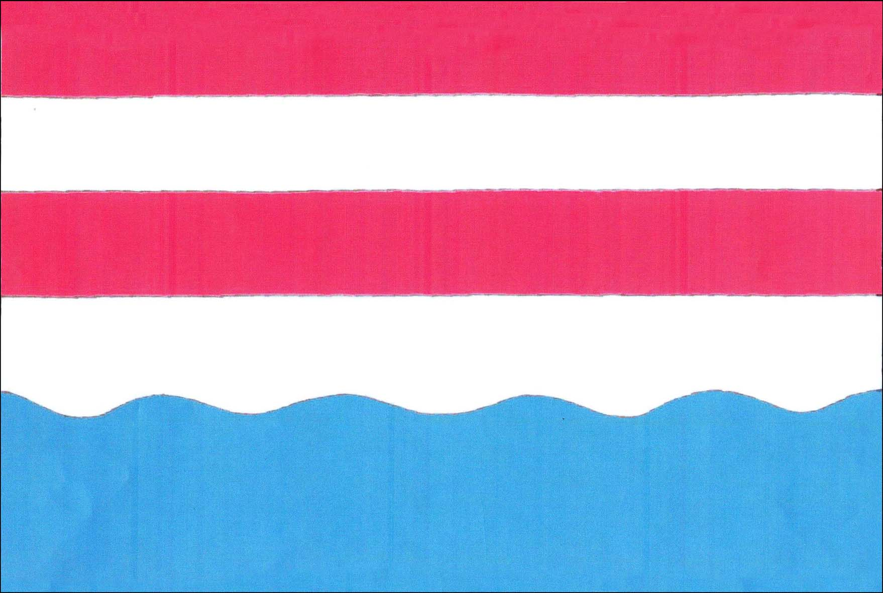 Flag of Velké Přítočno, Kladno District